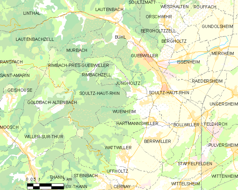 Map of French municipality